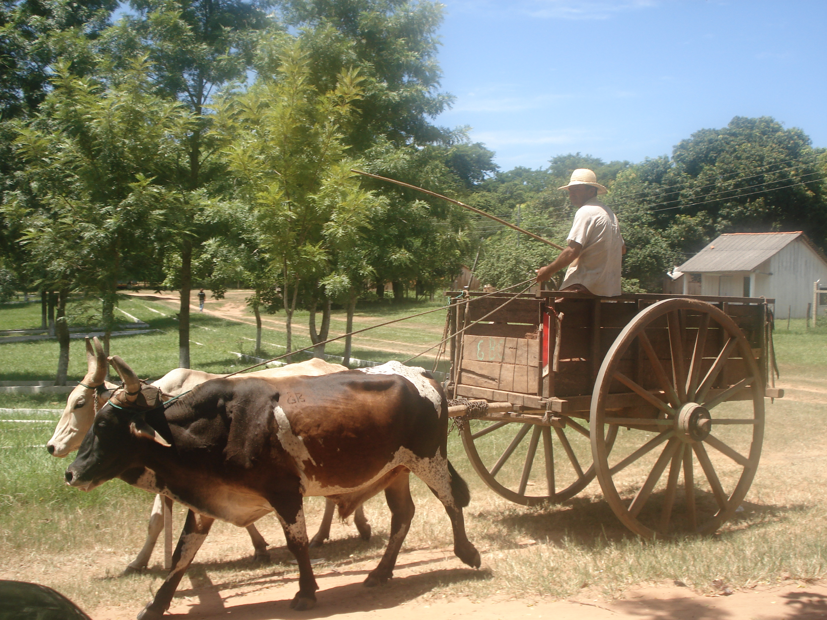 A cart in Paraguayan province of San Pedro.